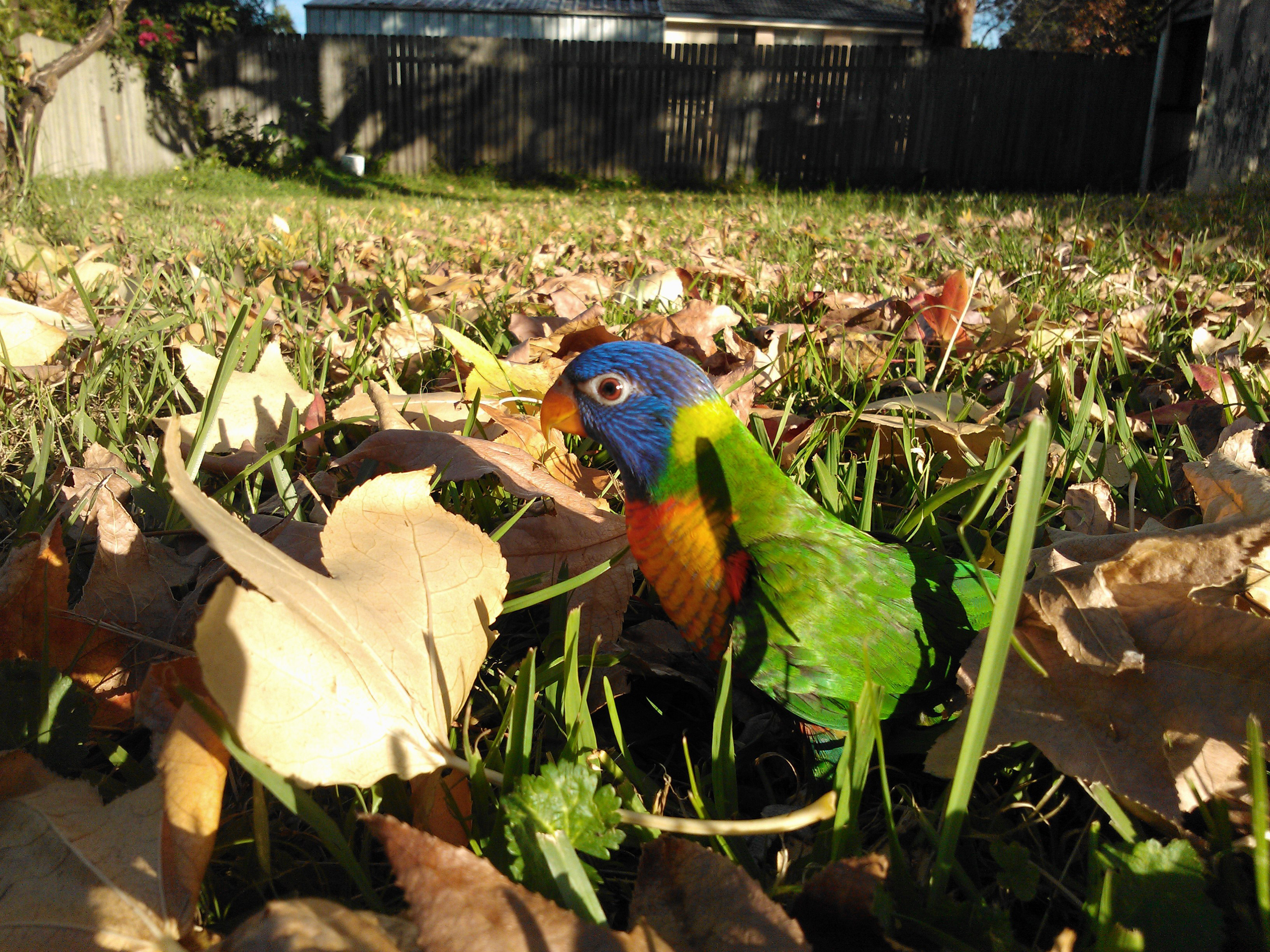 Jermaine, a female 12 week old Rainbow Lorikeet, abandoned by her parents at six weeks old and raised as part of a human menagerie. Sydney, Australia.